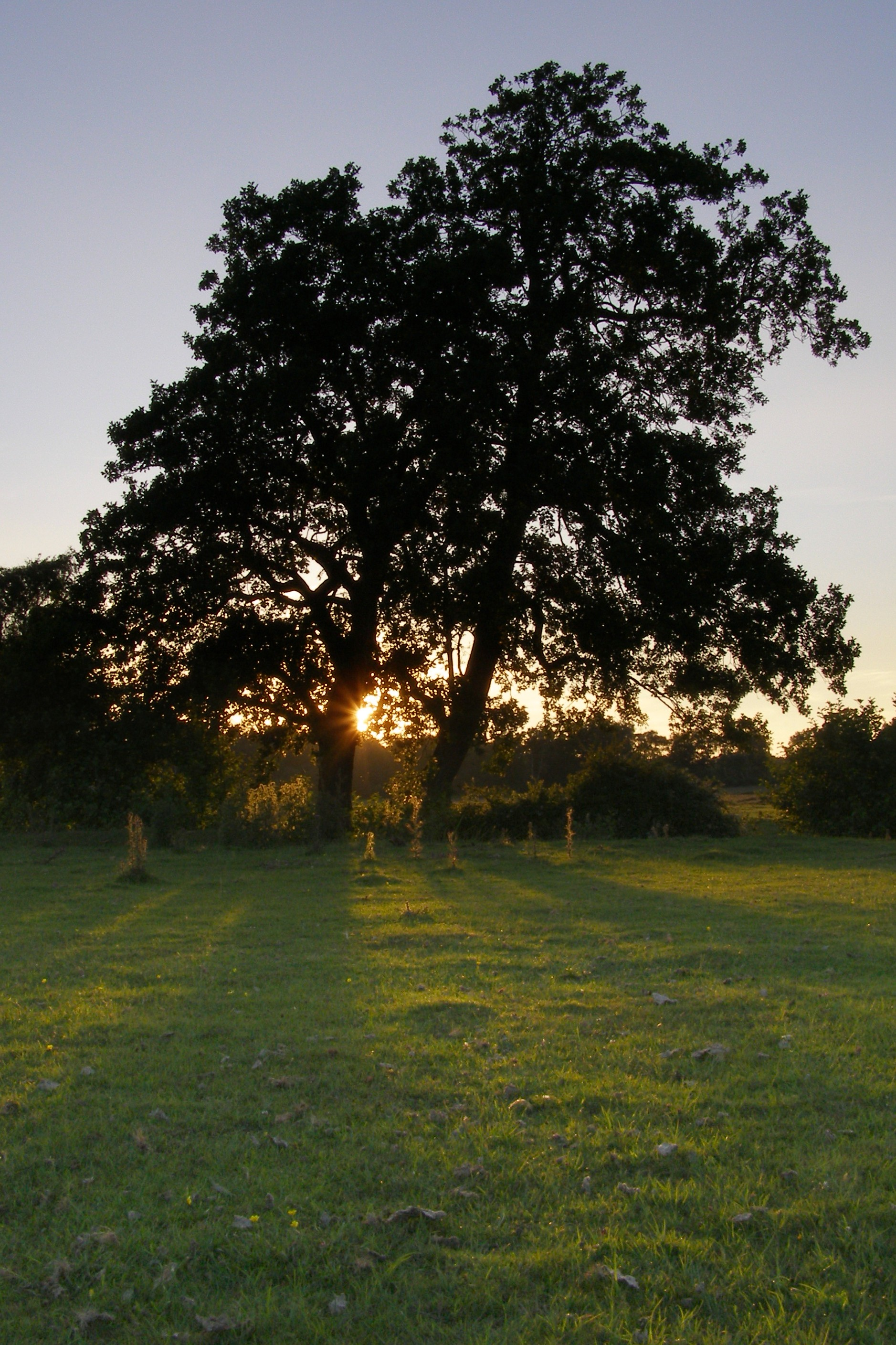 Silhouette of Alder trees by the Beaulieu River at Longwater Lawn, England.